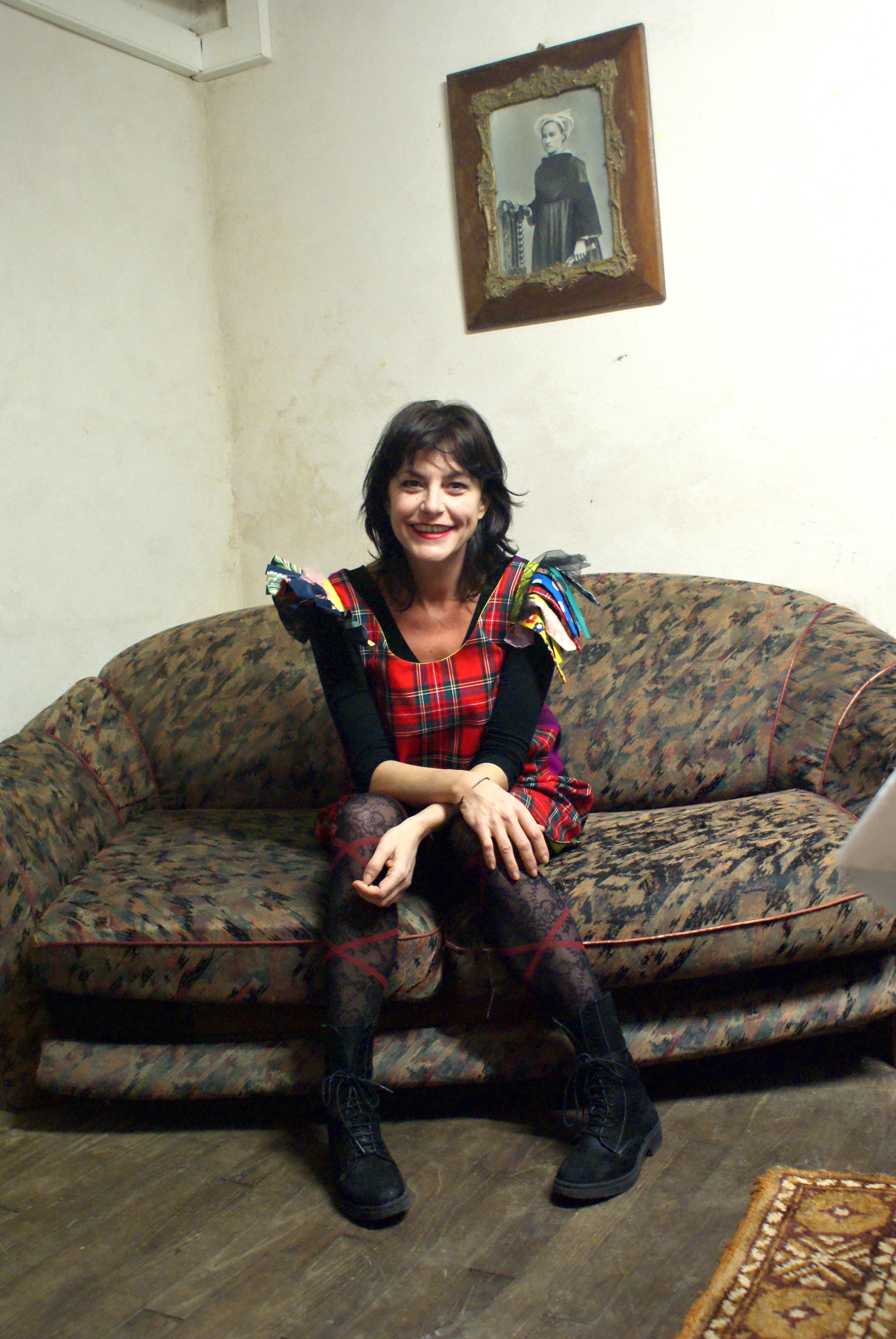 Famous belgian pop icon Lio.